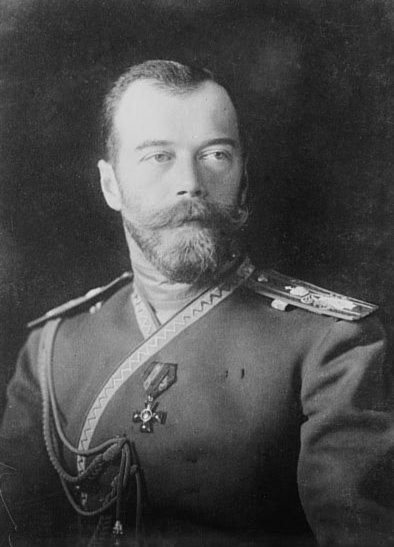 Nicholas II of Russia